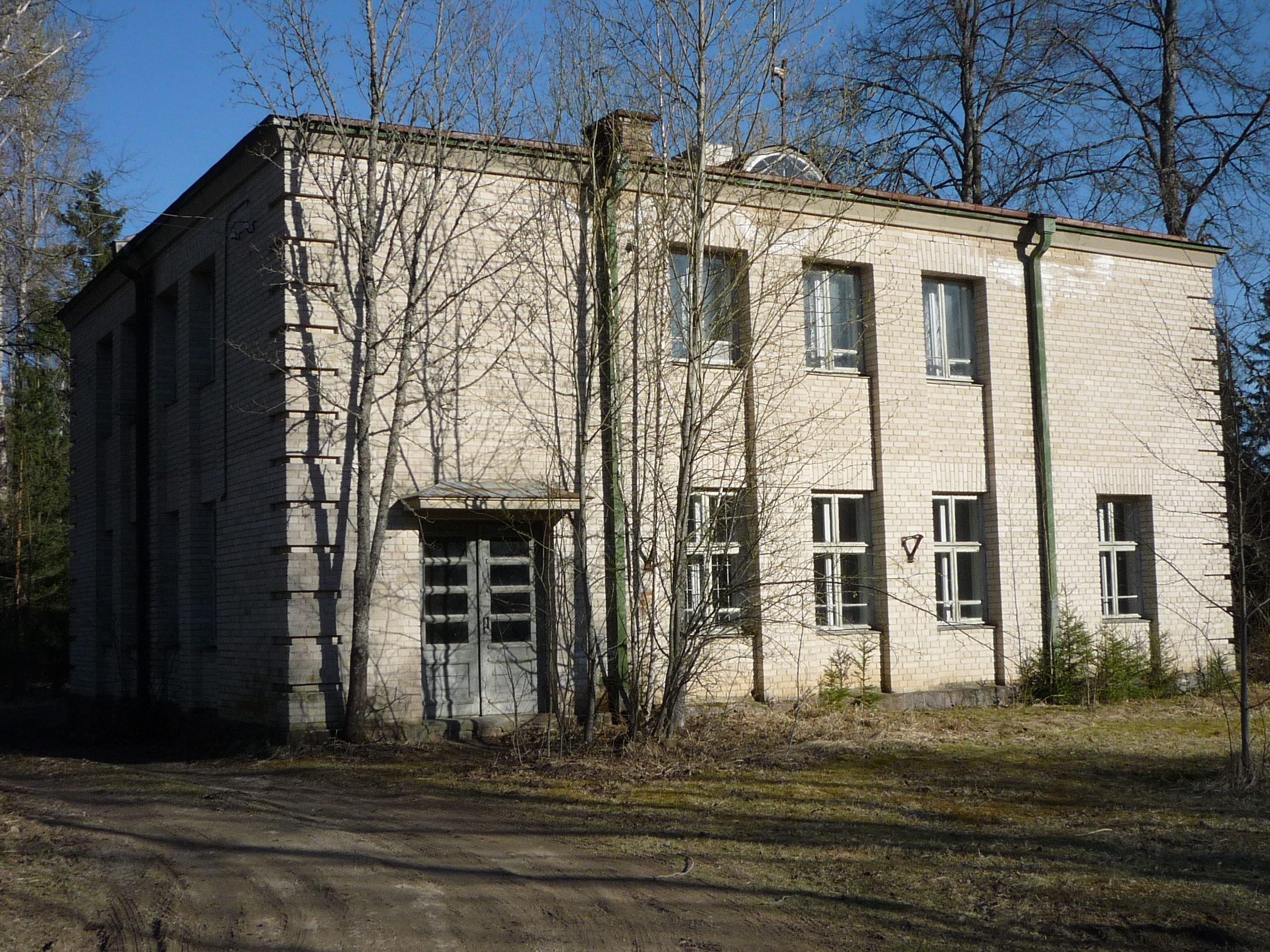 Paeküla old railway station. View from former embankment. Rapla county, Estonia.